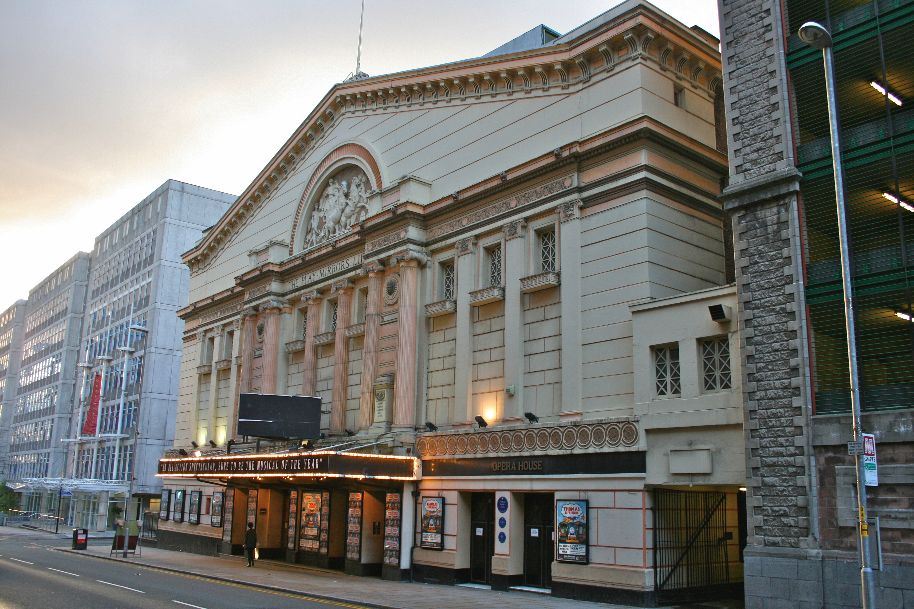 Manchester Opera House in Manchester, England.